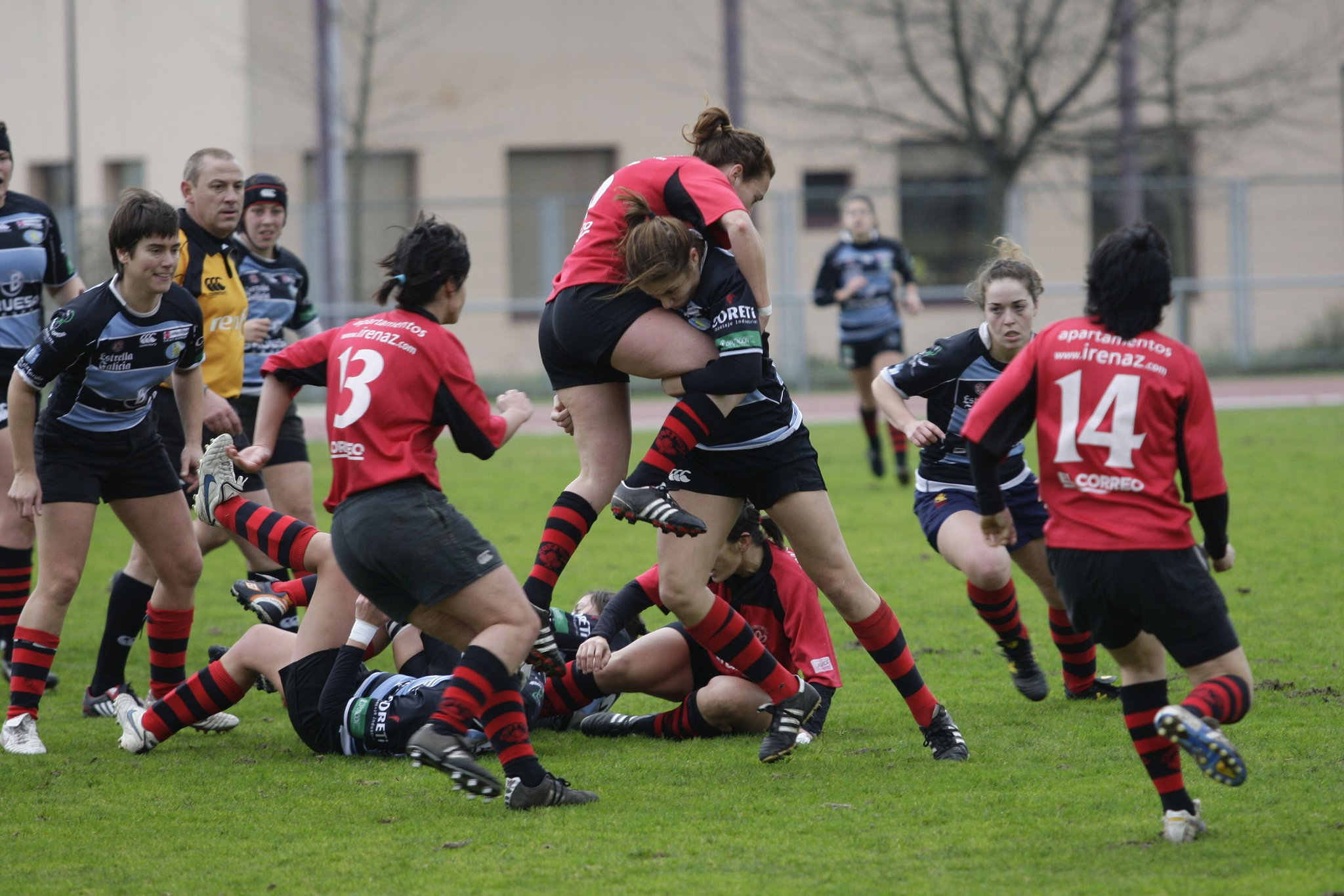 rugby female División Honor CRAT (Vanessa Rial tackling) vs Gaztedi